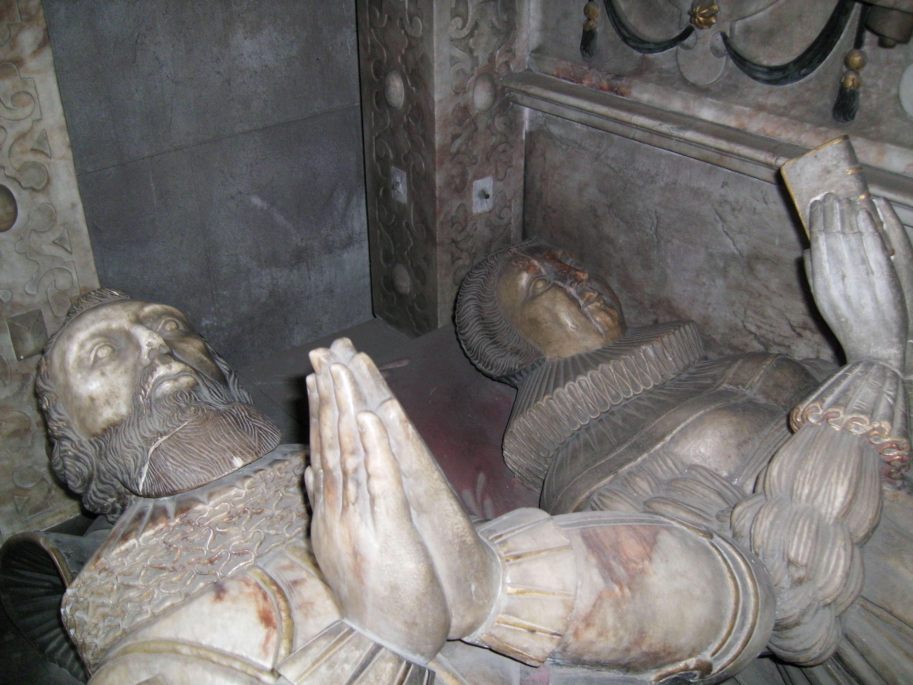 Sir Edward Littleton (died 1610) and Margaret Devereux, St Michael's church Penkridge, lower tier of a double tomb on east wall.